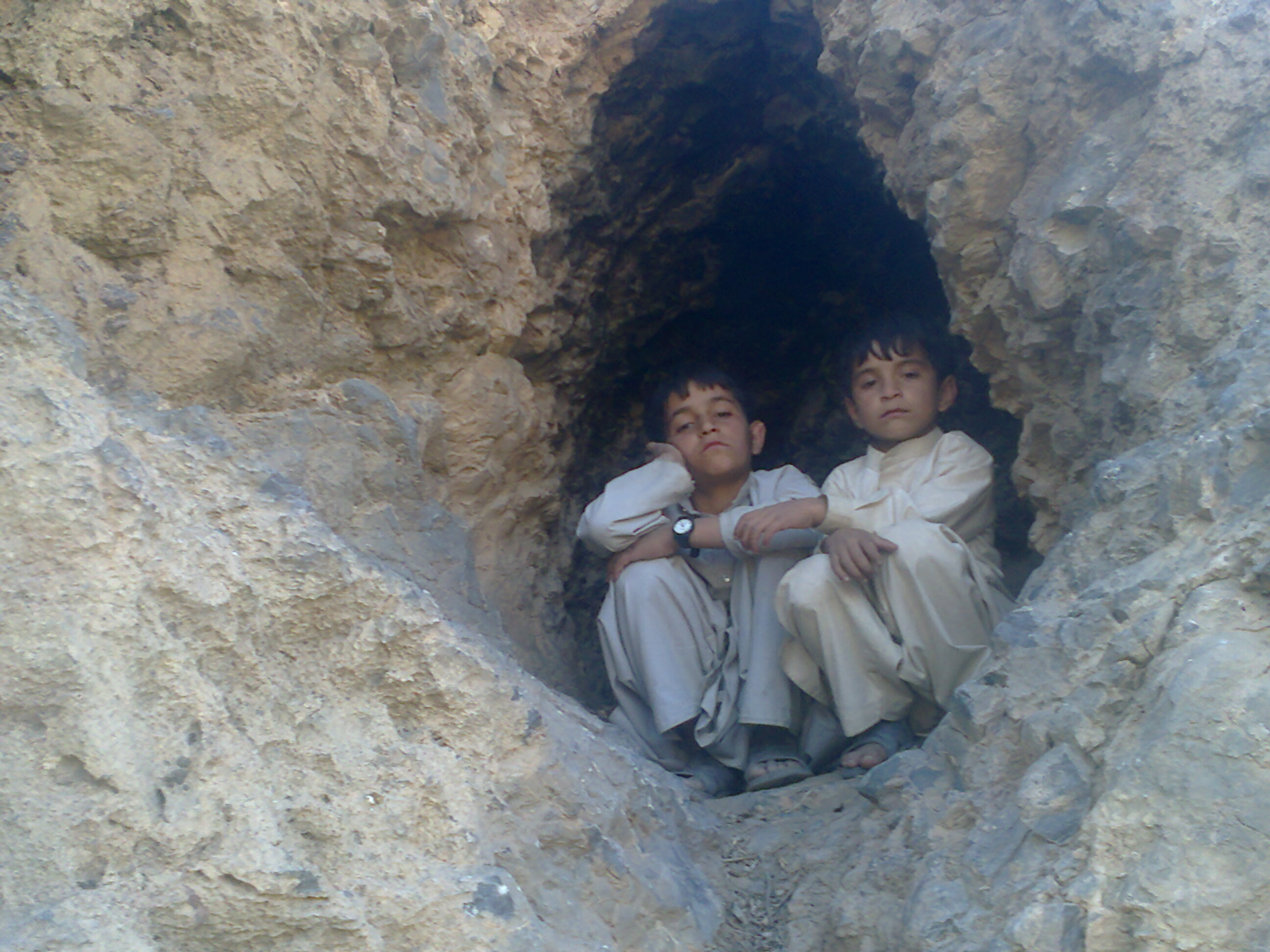 a cave in Bala Niganda